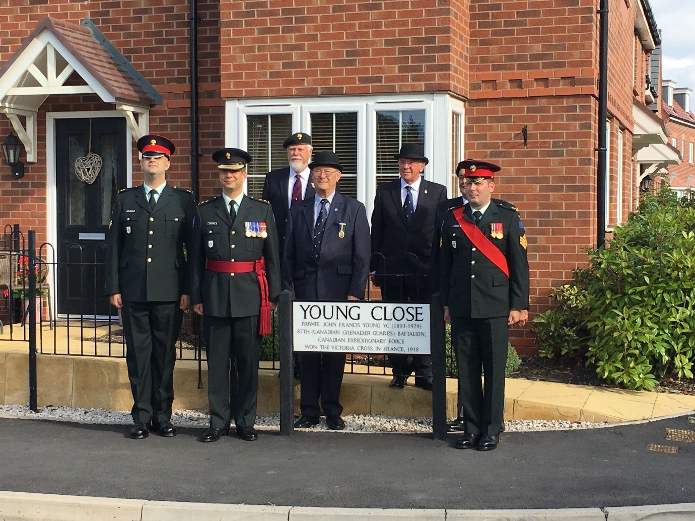 Unveiling of JF Young, VC Road on September 3rd, 2018